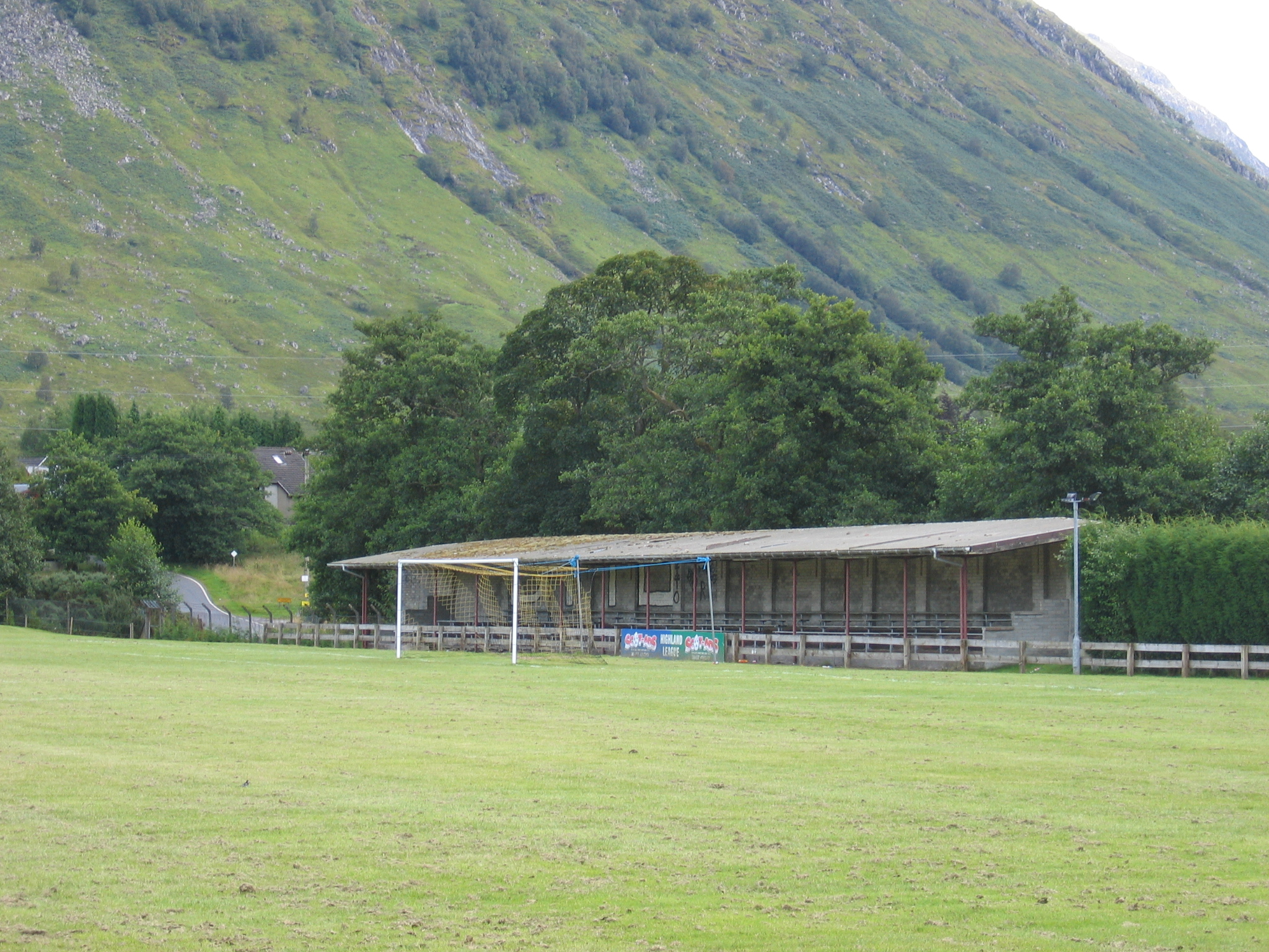 Main stand at Claggan Park.